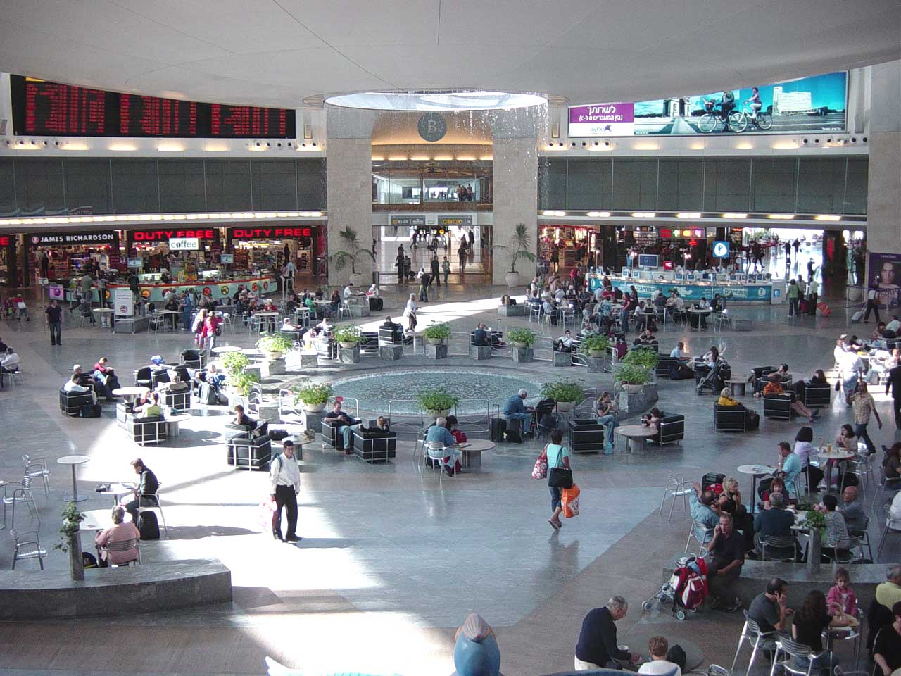 Duty Free Rotunda at Ben Gurion Airport